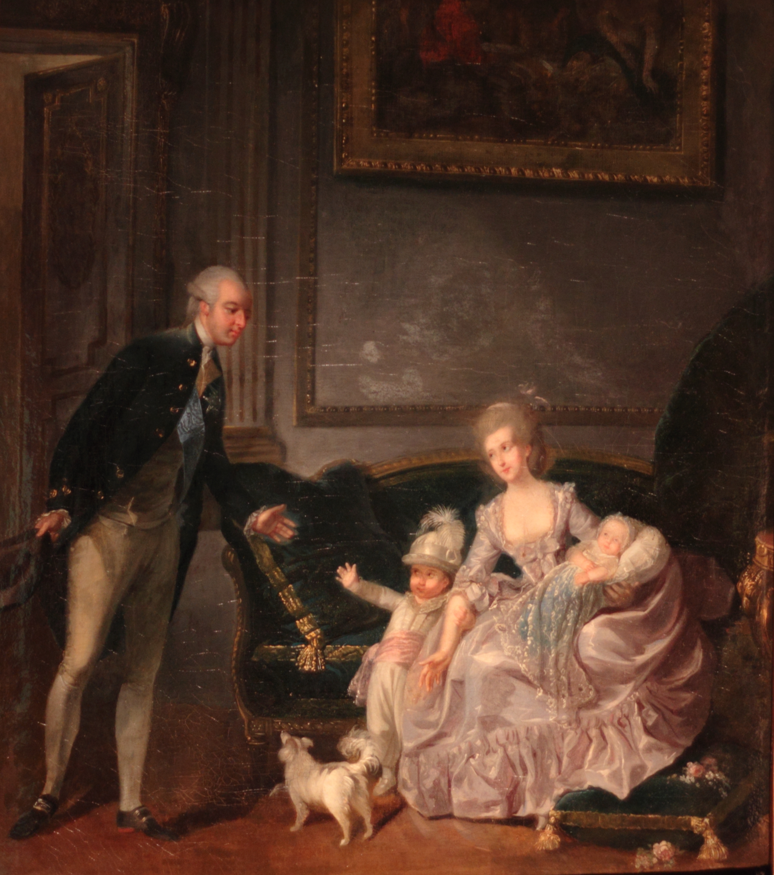 The future Philippe Égalité with his wife and sons at the Palais Royal